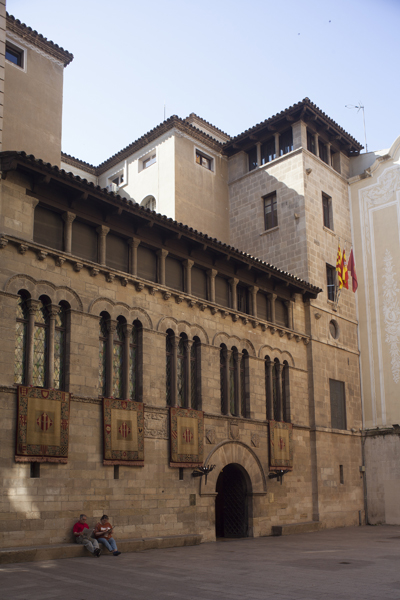 La Paeria; Lleida; Catalunya, Lleida; Spain; Ajuntament La Paeria, façana, ; Town hall La Paeria. Façade. Exterior. Romanesque-Gothic. ; Cultural heritage; Cultural heritage|Gothic; Cultural heritage|Romanesque; Europe; Europe|Spain|Lleida; photo: Paul M.R. Maeyaert; ; Ref.: PM_106681_E_Lleida